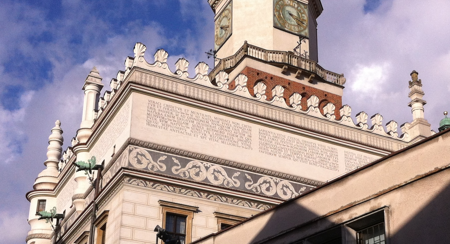 Poznań Town Hall Side-Inscription South